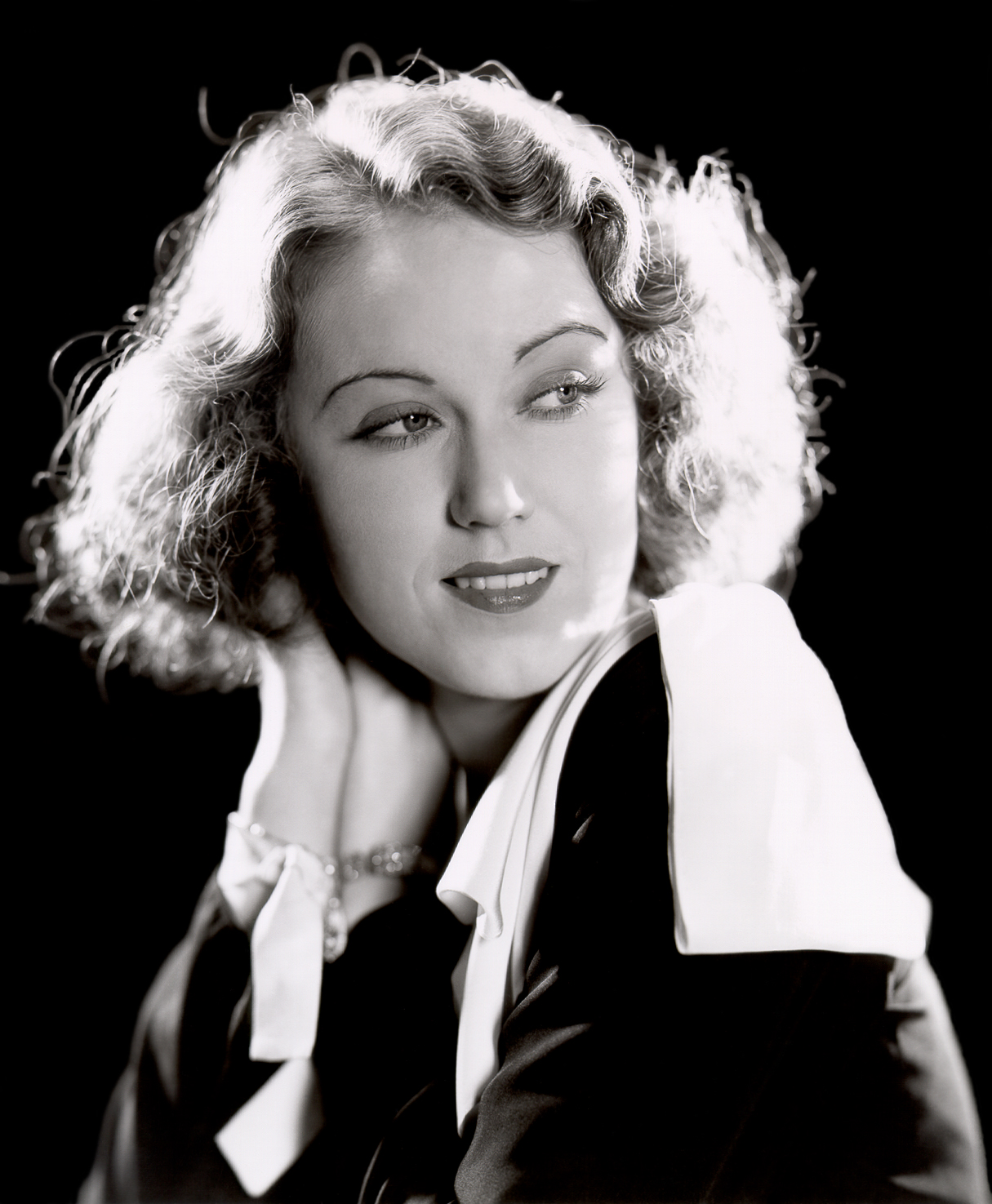 Studio publicity photo of Fay Wray